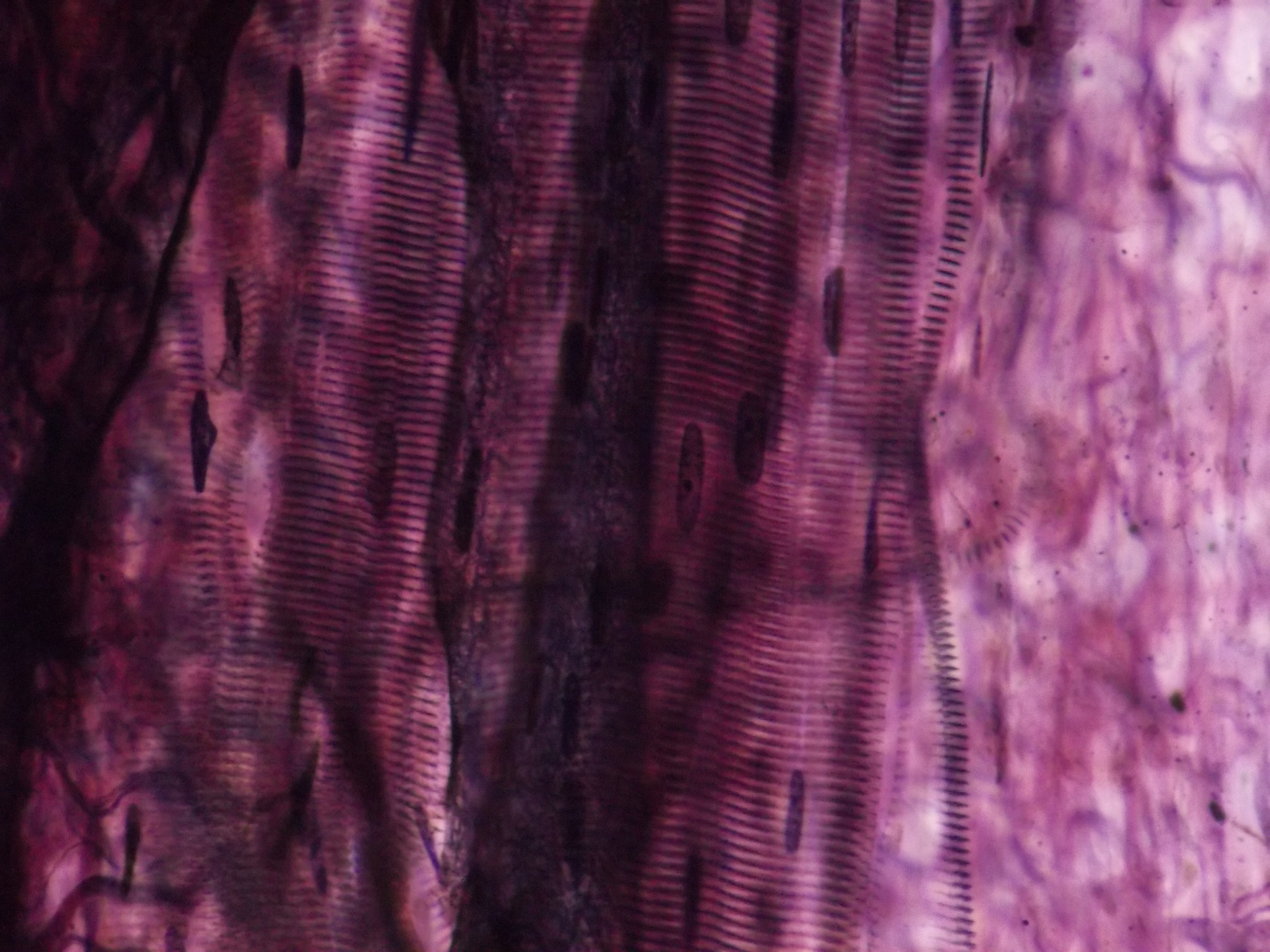 Aponeurosis; crop of central overlapped zone of same histological section from which was photographed Aponeurosis.JPG and Aponeurosis 100X.JPG, but bigger magnification (400X). During staining and fixing process cells are removed and only shows elastic fibers. However, probably due to the folding and overlapping of the layers in the central portion, in the middle there are striated skeletal muscle fibers. It is seen clearly the characteristics striations of the muscle and nuclei of fibroblasts, but elastic fibers look blurred because they are in a different layer and micrometric adjustment of microscope only allow to see one layer at time.